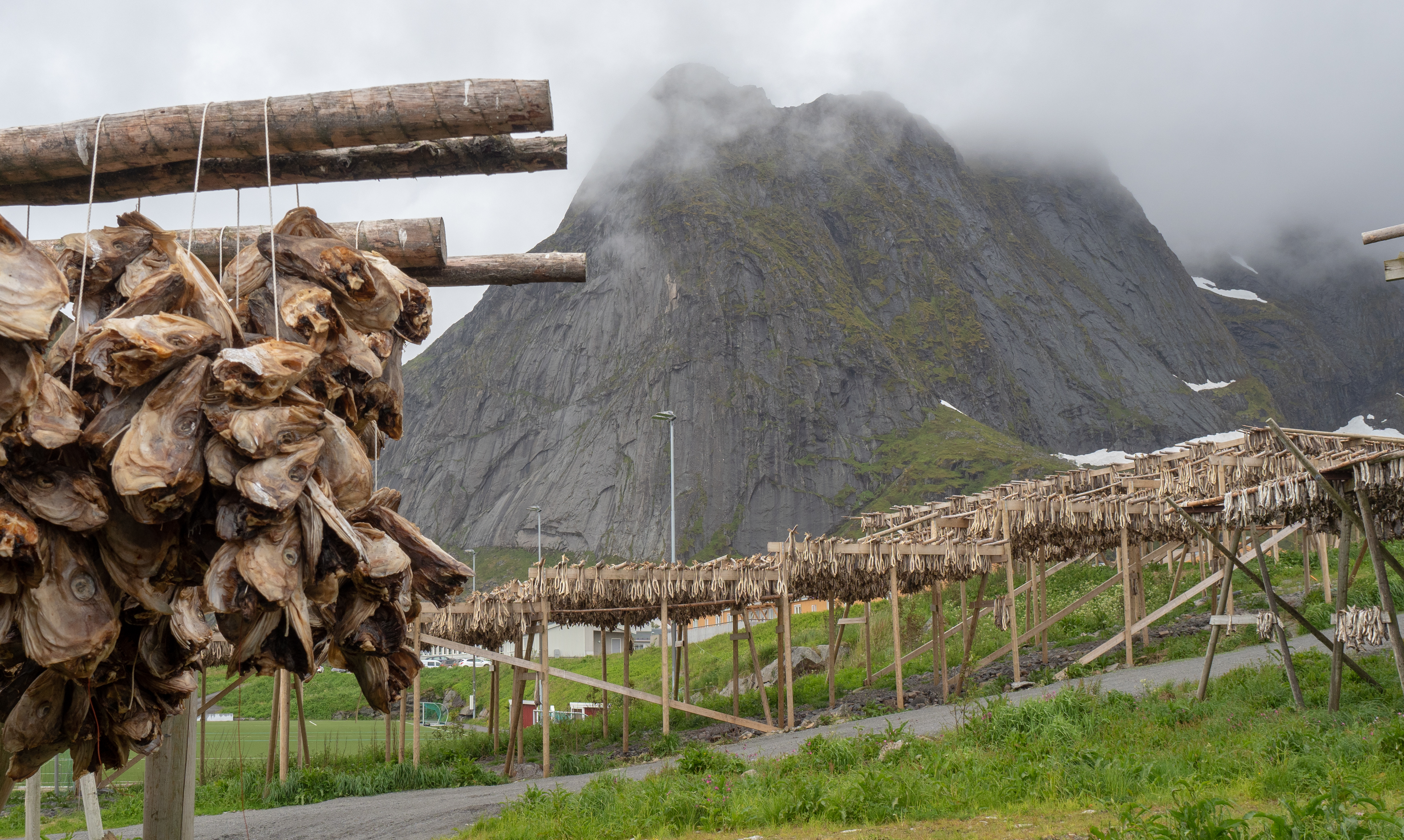 Stockfish Lofotes Norway